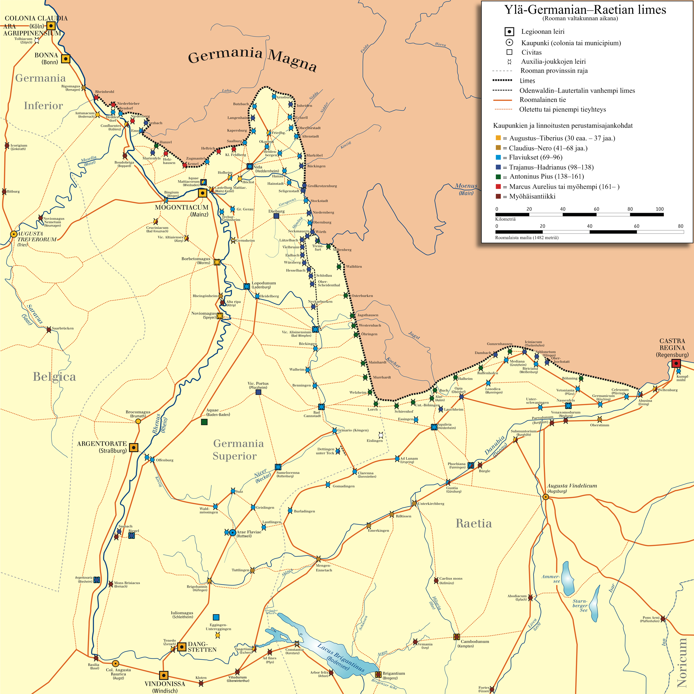 Finnish version of File:Limes2.png